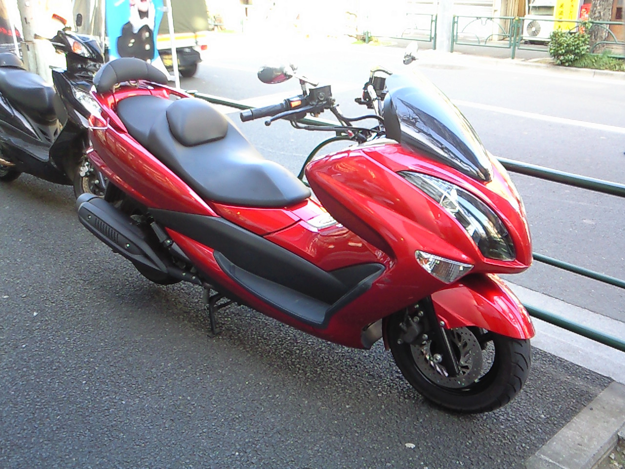 YAMAHA MAJESTY 250 2007 Model JBK-SG20J DeepRedMetalic K, Japan